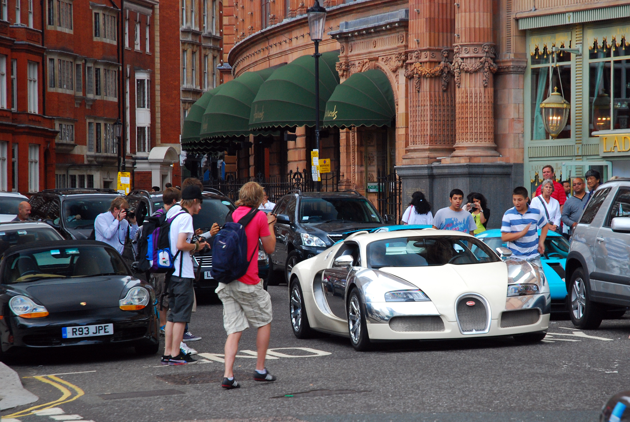 Carspotters near Harrods in London